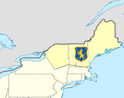 Map of 32d Air Division AOR 1949-1963